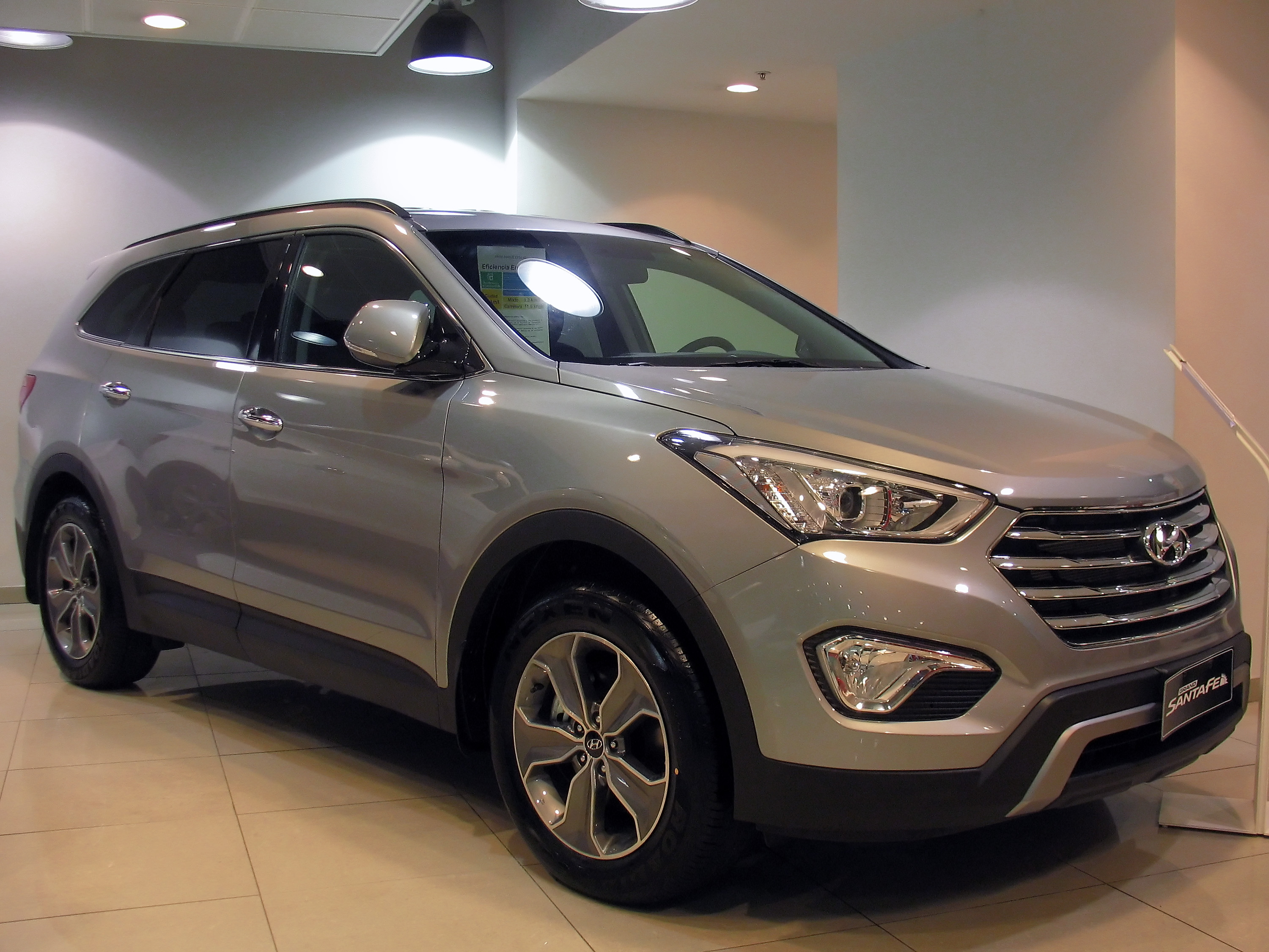 "The new Veracruz"